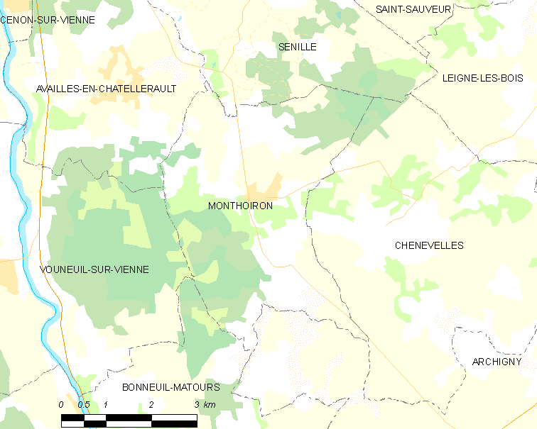 Map of French municipality Monthoiron